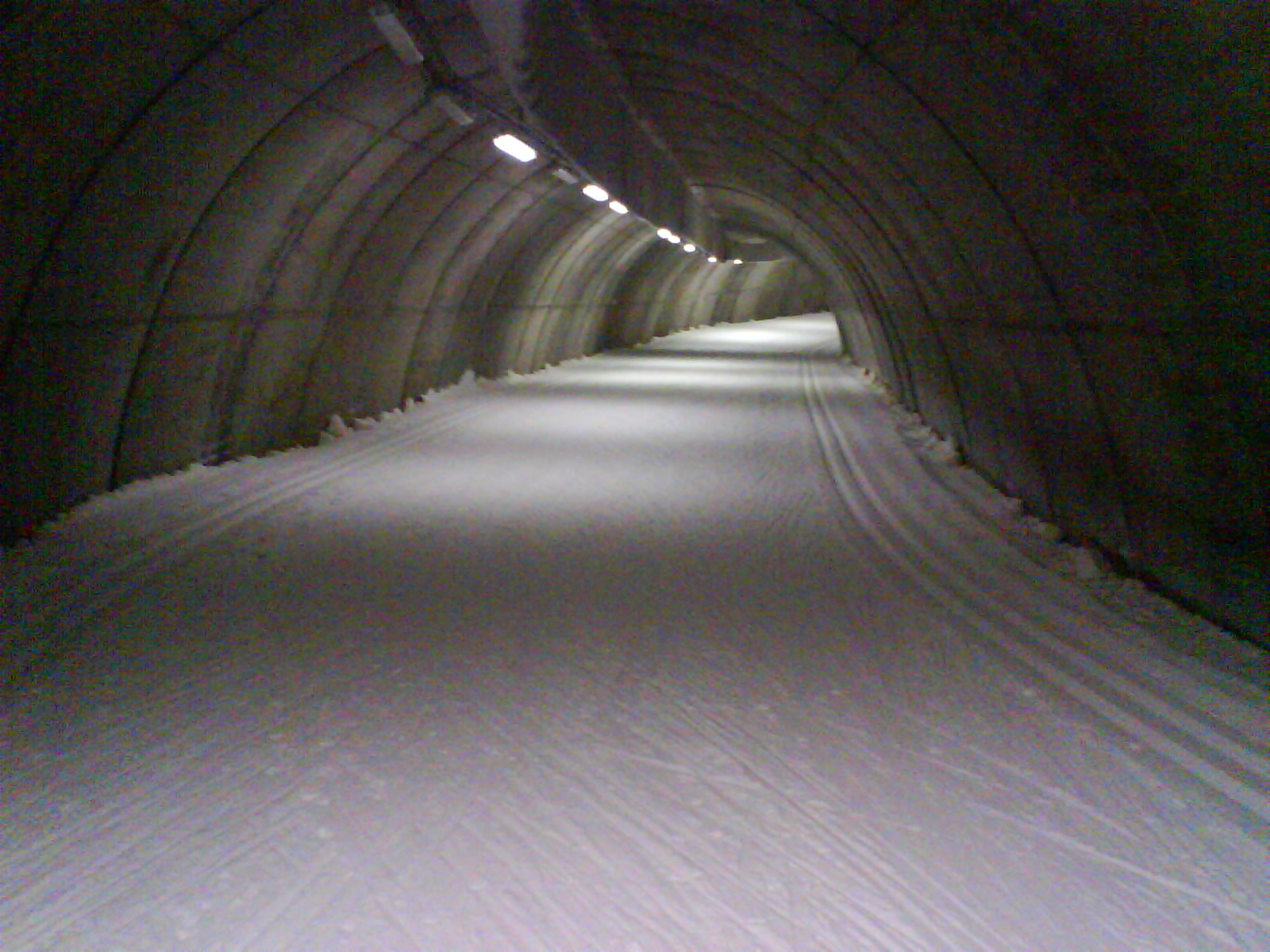 Interior from Fortum Ski Tunnel in Torsby, Sweden.